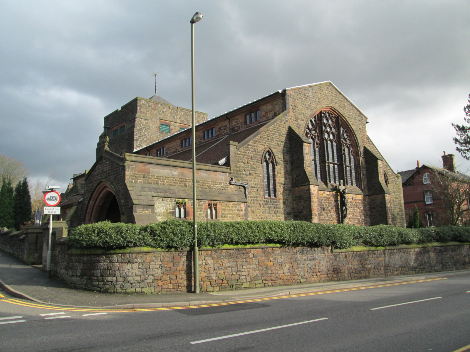 All Saints' parish church, Southbank Street, Leek, Staffordshire, seen from the west